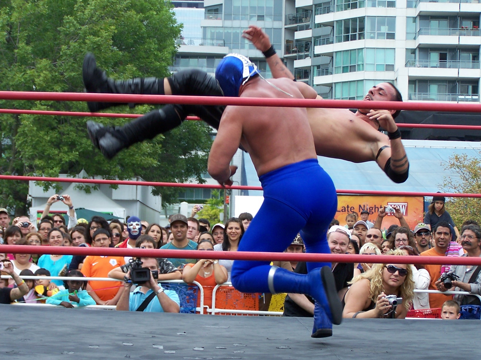 Lucha Libre - Mexican Wrestling at Harbourfront, Toronto